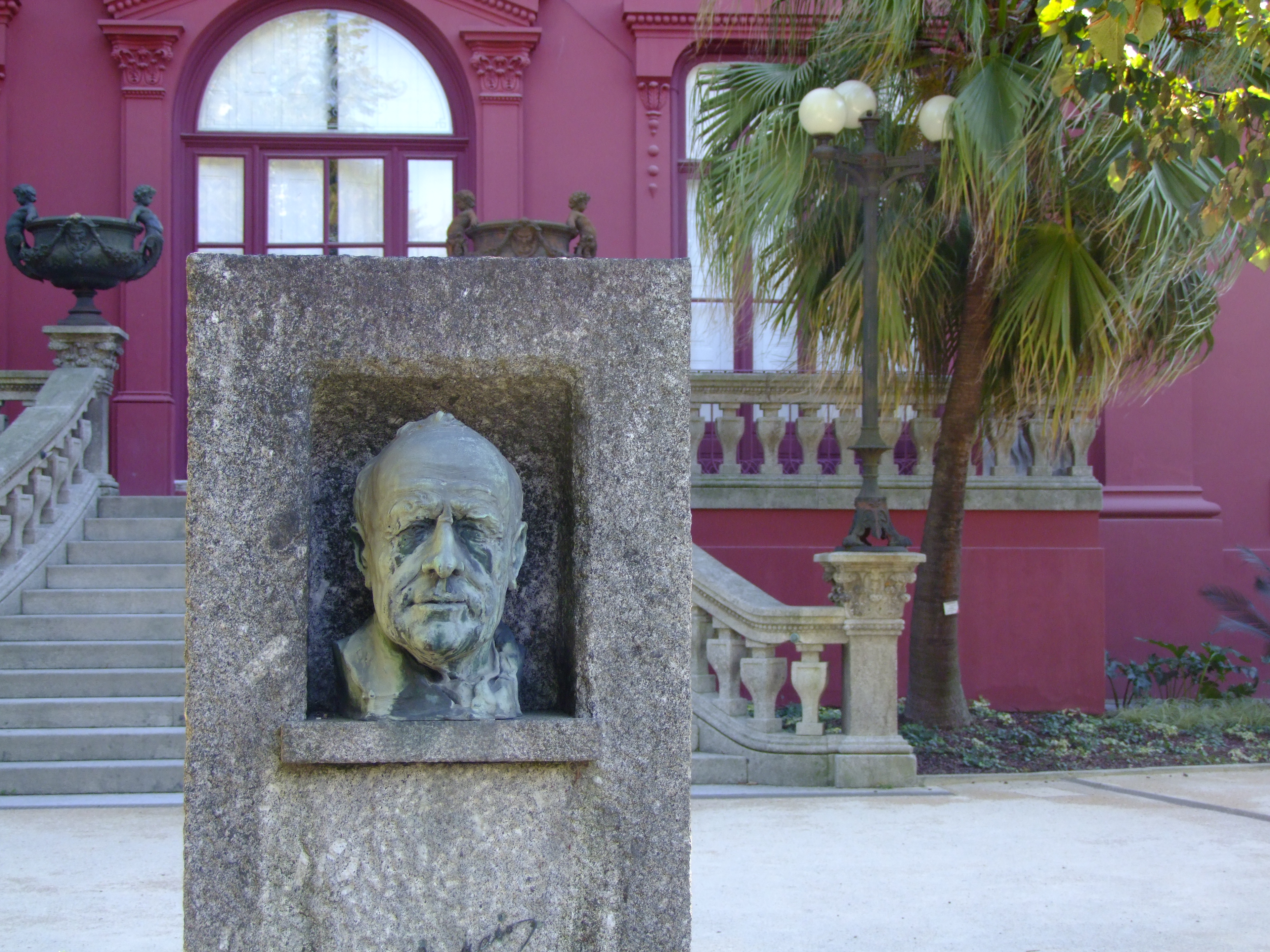 Bust of Professor Gonçalo Sampaio, author Abel Salazar. Botanical Garden of Oporto